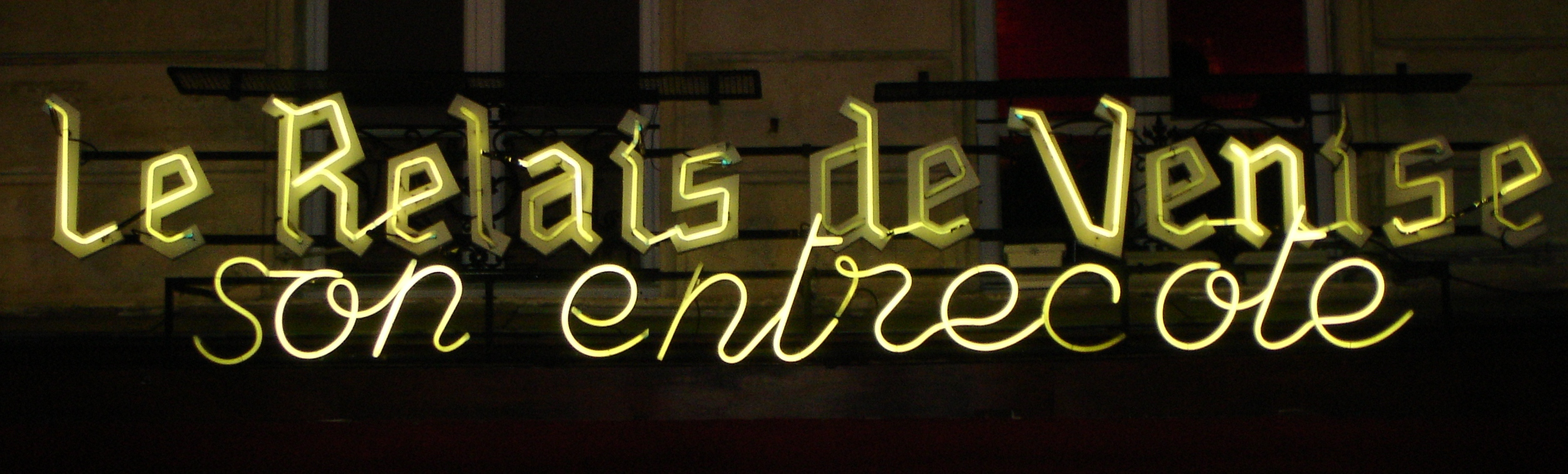 Sign at the original location of Le Relais de Venise - L'Entrecôte (Porte Maillot, Paris XVIIe)